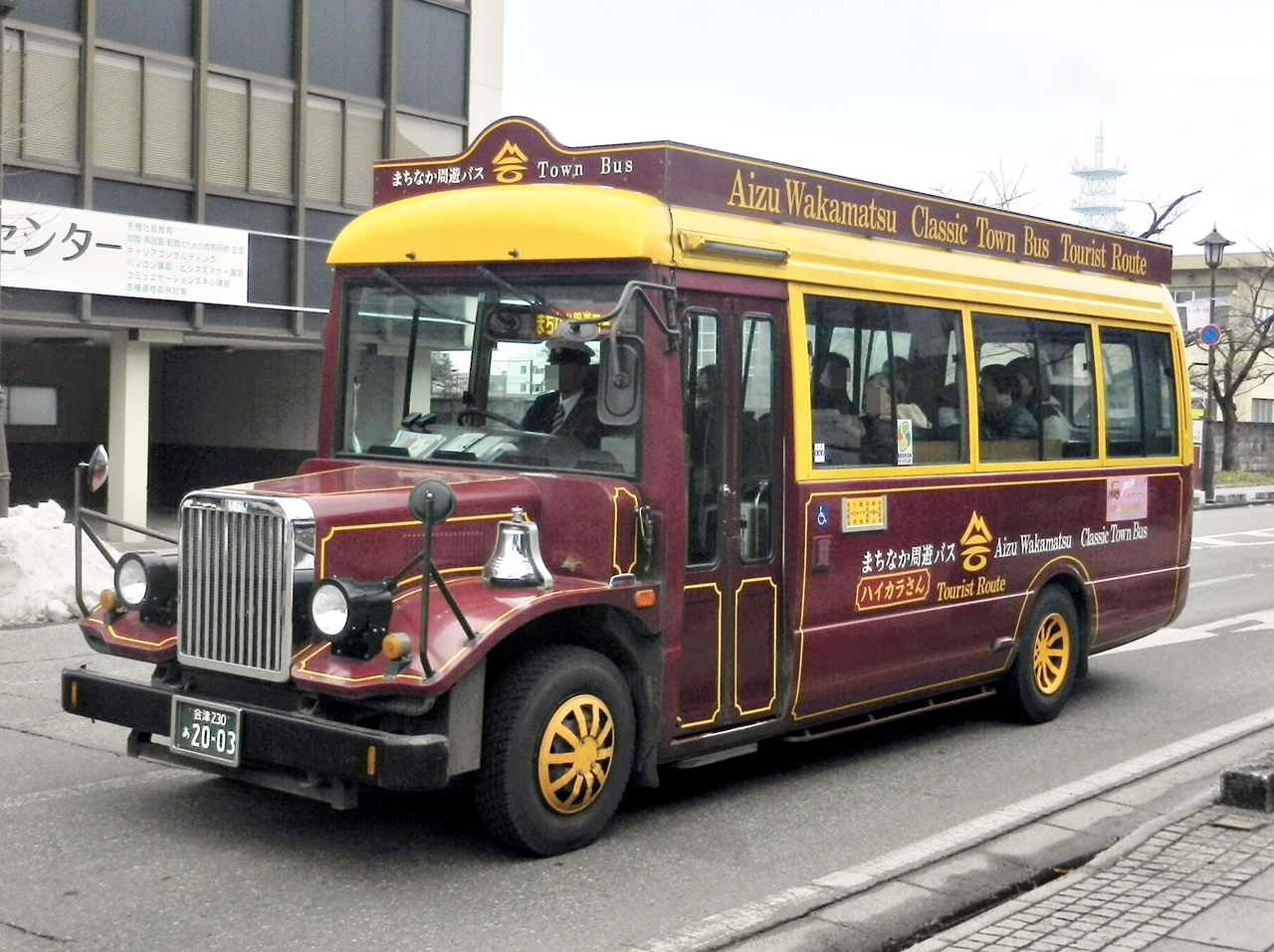 Aizu bus Mitsubishi Fuso Rosa bonnetbus for Aizuwakamatsu city roop bus "Haikara-san"